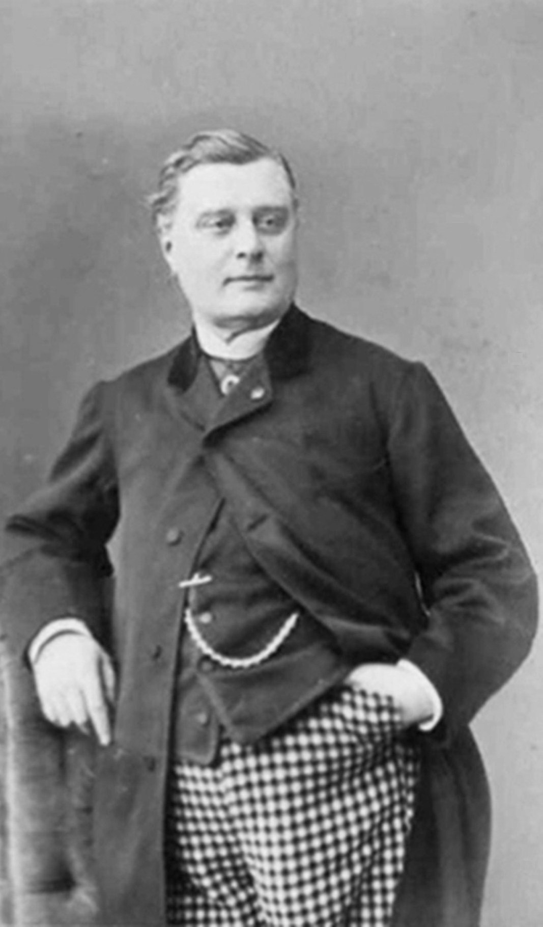 Count Alexandre Walewski (1810-1868), natural son of Emperor Napoléon Ier and Countess Marie Walewska. He is a senator and minister of foreign affairs under the Second French Empire.